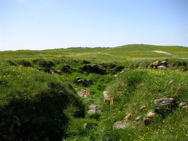 The Iron age Wheelhouse at Kilpheder, South Uist